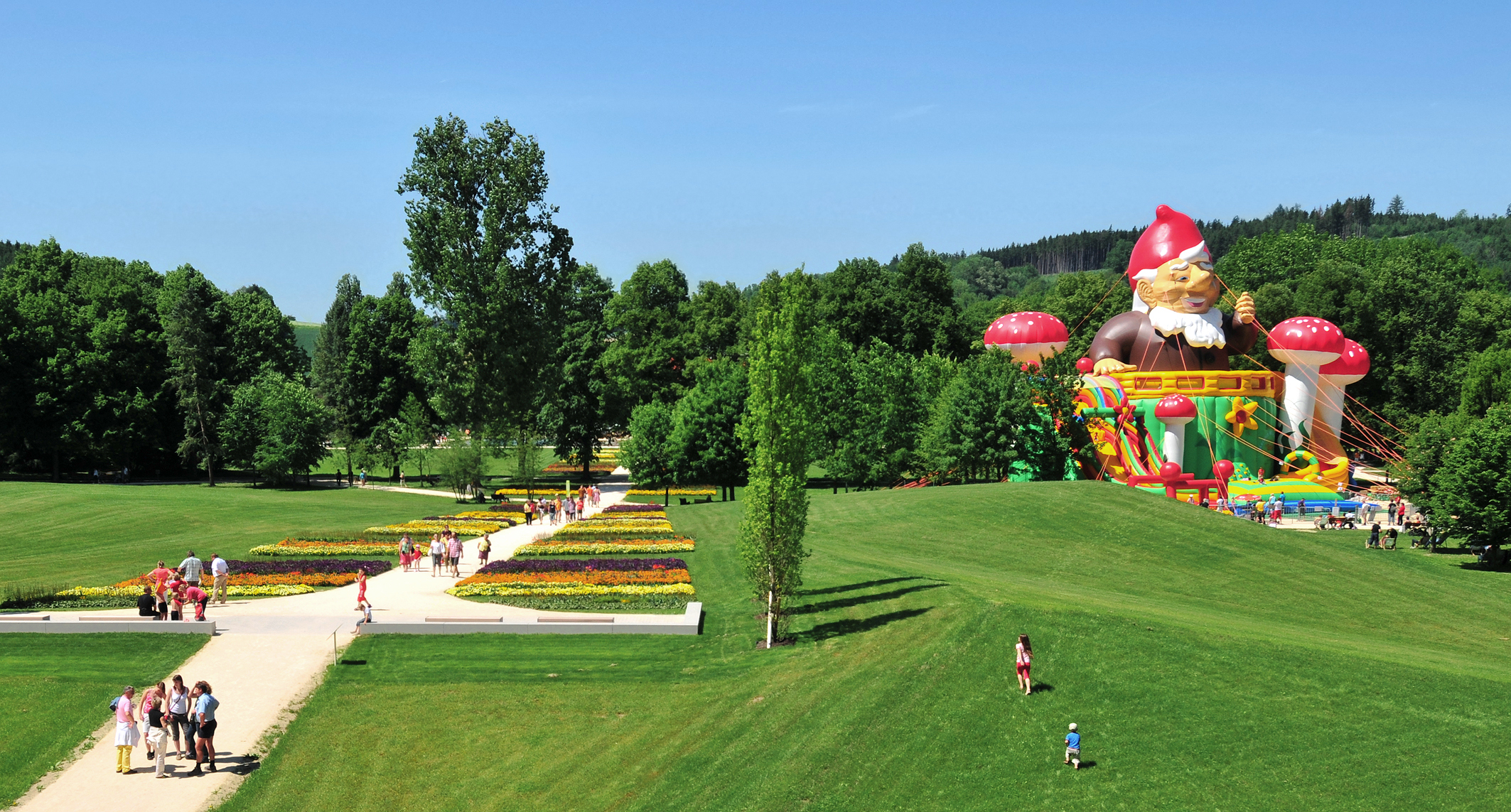 The "Botanica 2009" in Bad Schallerbach, Upper Austria.